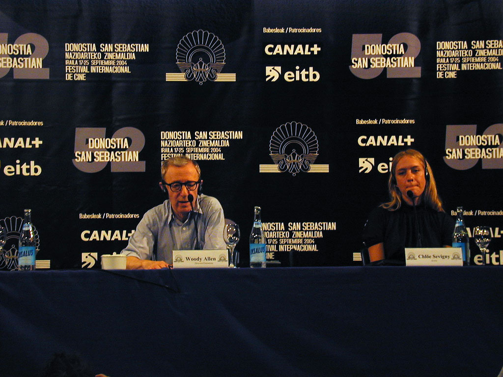 Woody Allen and Chloë Sevigny doing a press conference for Melinda and Melinda at the San Sebastian International Film Festival (Spain)